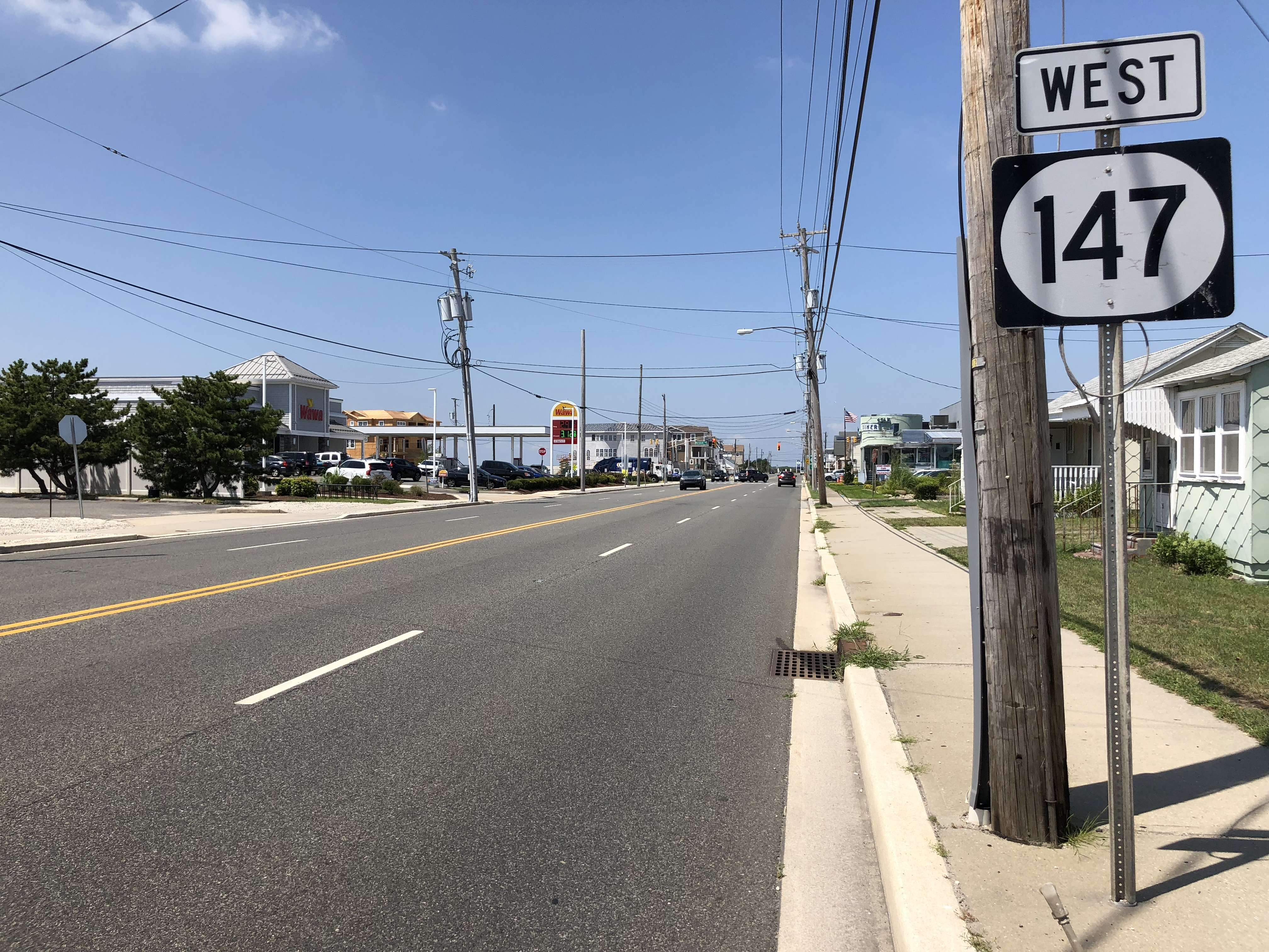 View west along New Jersey State Route 147 (Spruce Avenue) just west of Delaware Avenue in North Wildwood, Cape May County, New Jersey